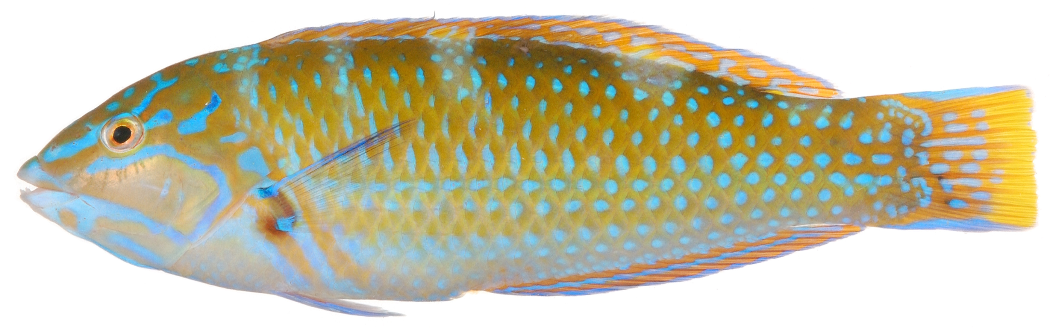 Halichoeres (Iridio) radiatus Description: The standard length of the terminal phase of the puddingwife wrasse is 134 millimeters. This image was taken with a Nikon D1X 5.47-megapixel camera with a 105-millimeter f/2.8D AF Micro-Nikkor lens and dual Nikon SB28 flash units. Creator/Photographer: Belize Larval-Fish Group 2004 The Division of Fishes of the Smithsonian?s National Museum Natural History has sent several teams to Belize in order to photograph larvae in the field. The 2004 team included Julie H. Mounts and Carole C. Baldwin from February 18 through 25, and David G. Smith, Lee A. Weigt, and Claudette Decourley from February 25 through March 11. Medium: Digital photograph Geography: Belize Date: 2004 Persistent URL: [1] Repository: National Museum of Natural History, Division of Fishes Image ID: halichoeres_radiatus_termin